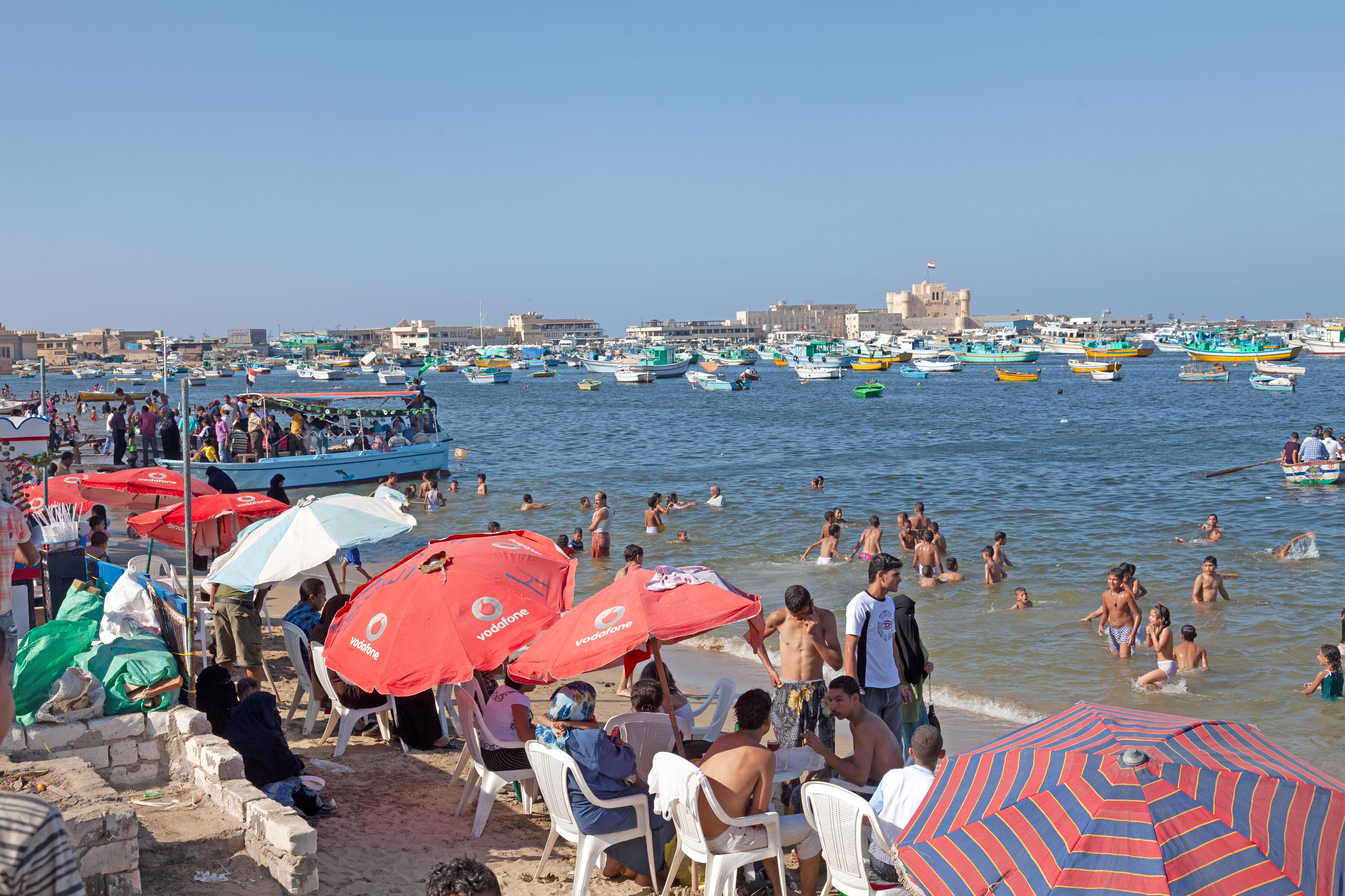 Beach in the Eastern Harbour of Alexandria, Egypt